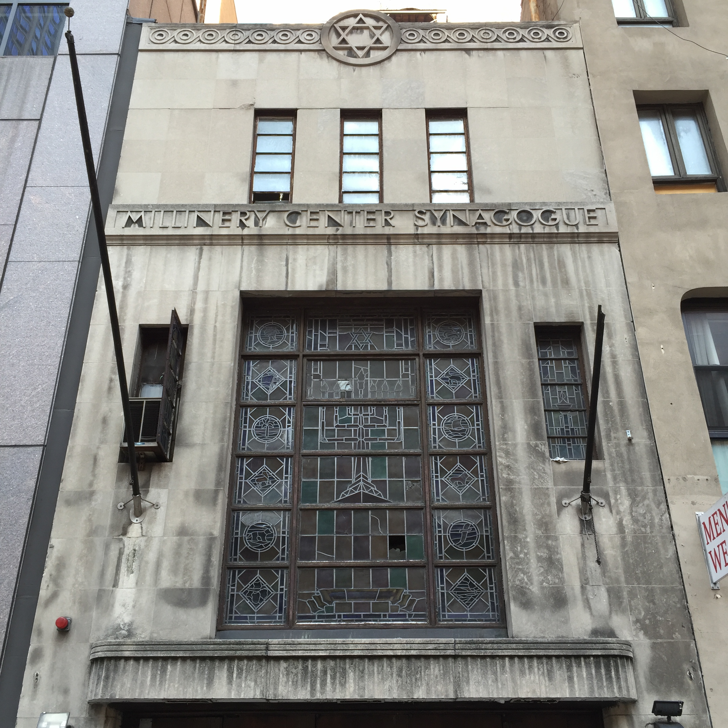 Millinery Center Synagogue, Garment Center district, New York City, Midtown Manhattan, 1025 Sixth Ave, New York, NY 10018